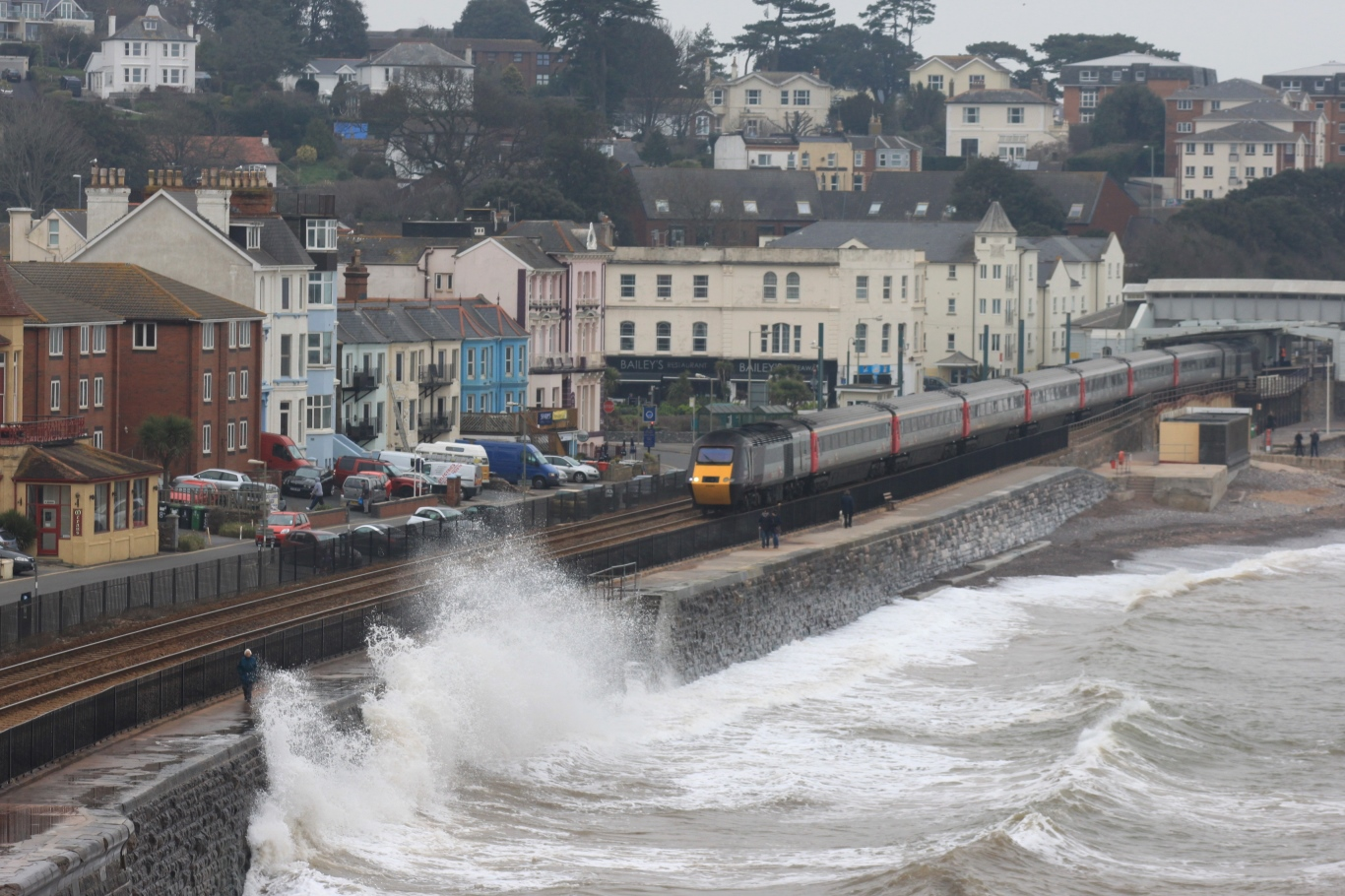 High tide lashes the sea wall at Dawlish as a CrossCountry high speed train heads for Plymouth behind power car 43303.